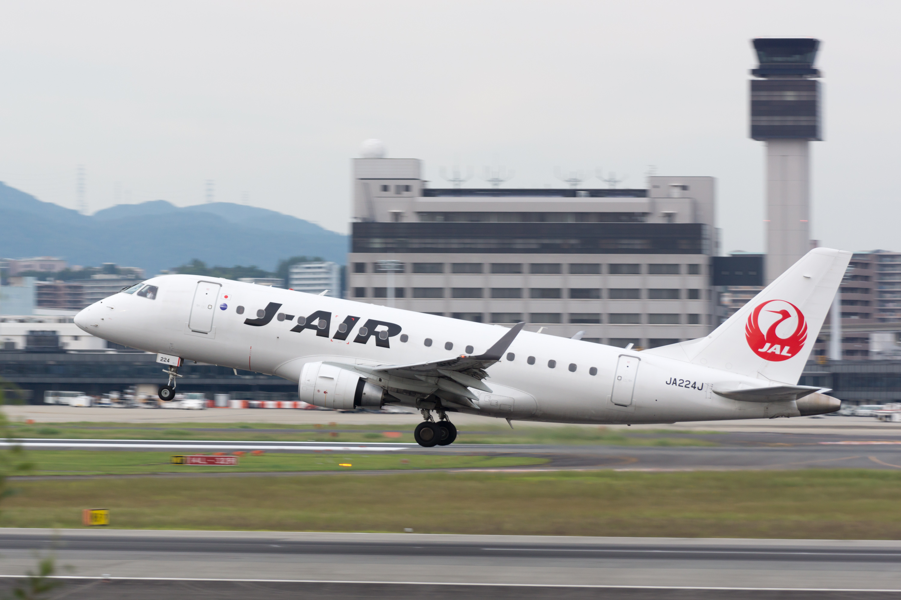 J-Air / ジェイ・エア Embraer ERJ-170-100 (ERJ-170STD) JA224J JL2157, Departed to Aomori Osaka Itami Int'l Airport